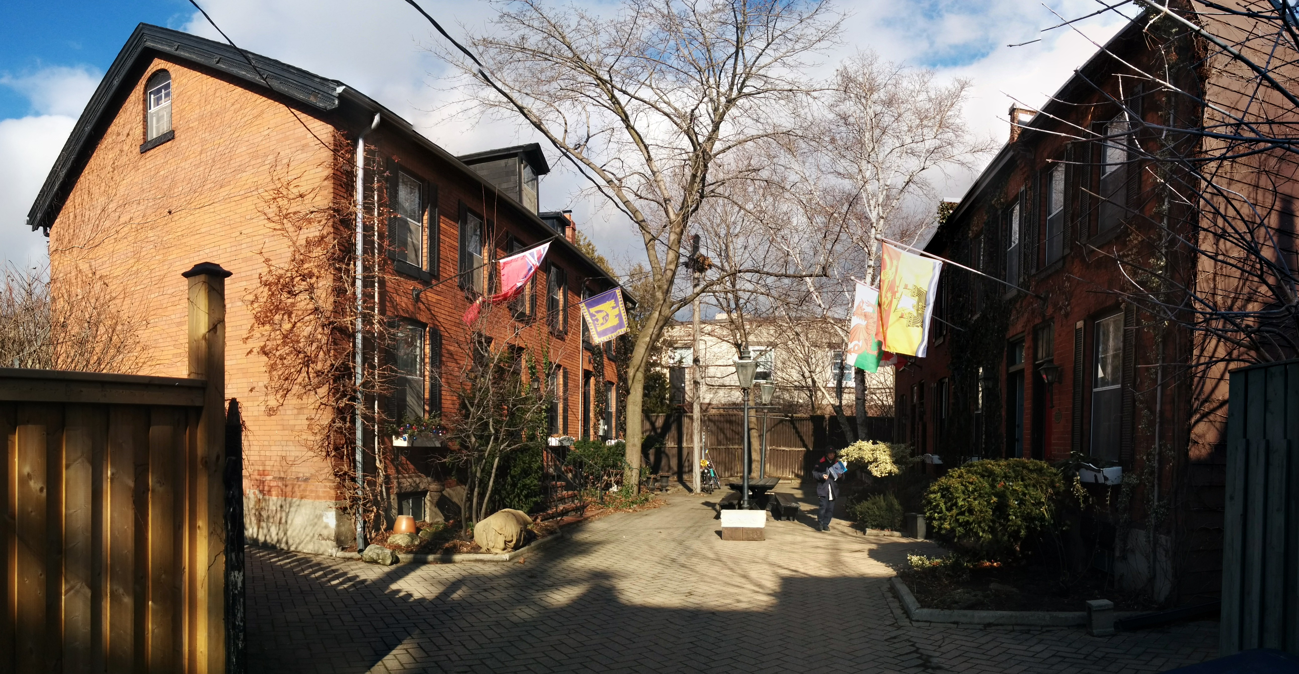 A picture of the Victorian-era housing on Melbourne Place in Parkdale, Toronto, Canada.